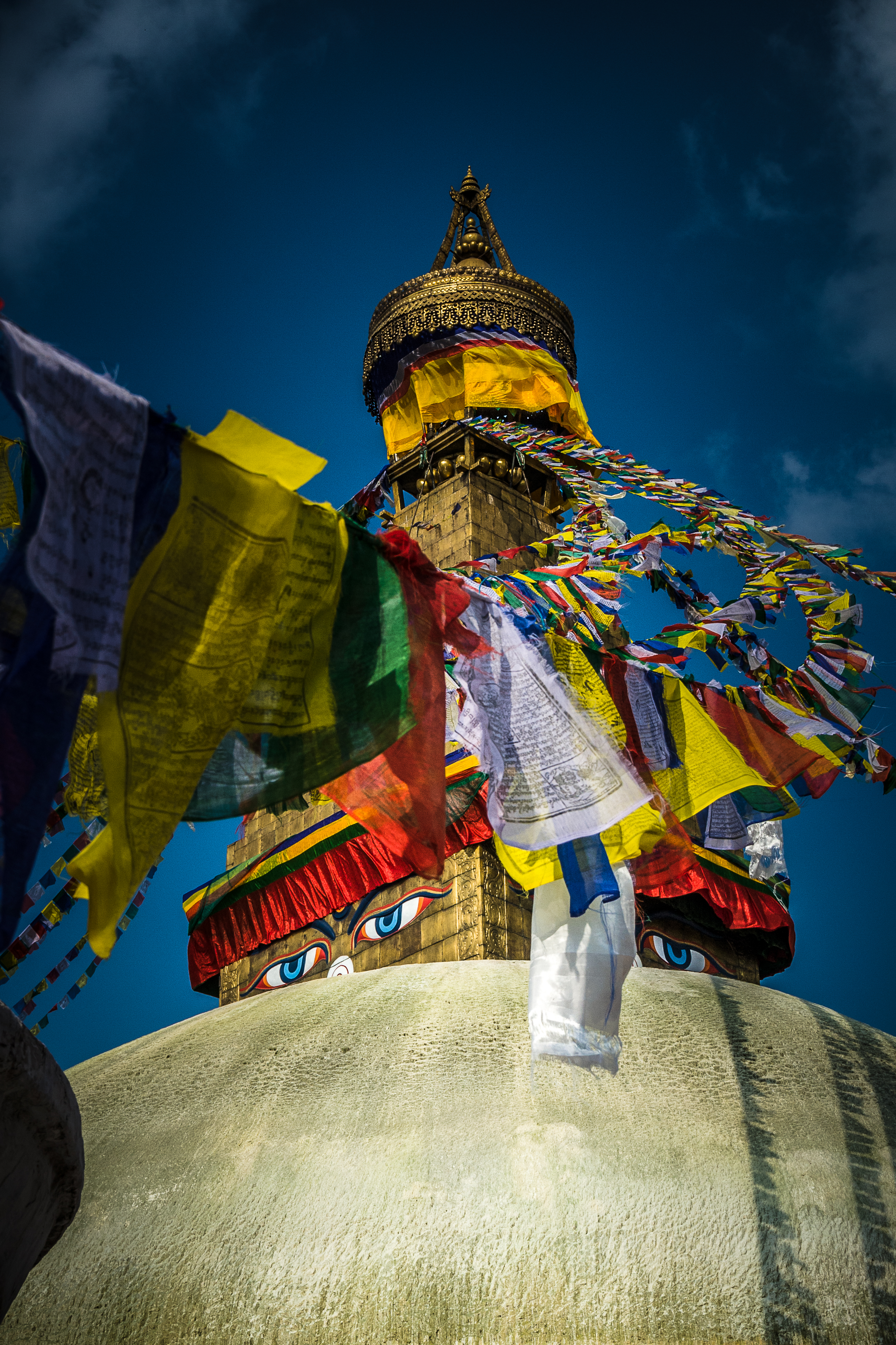 Boudhanath Stupa with Prayer Flags